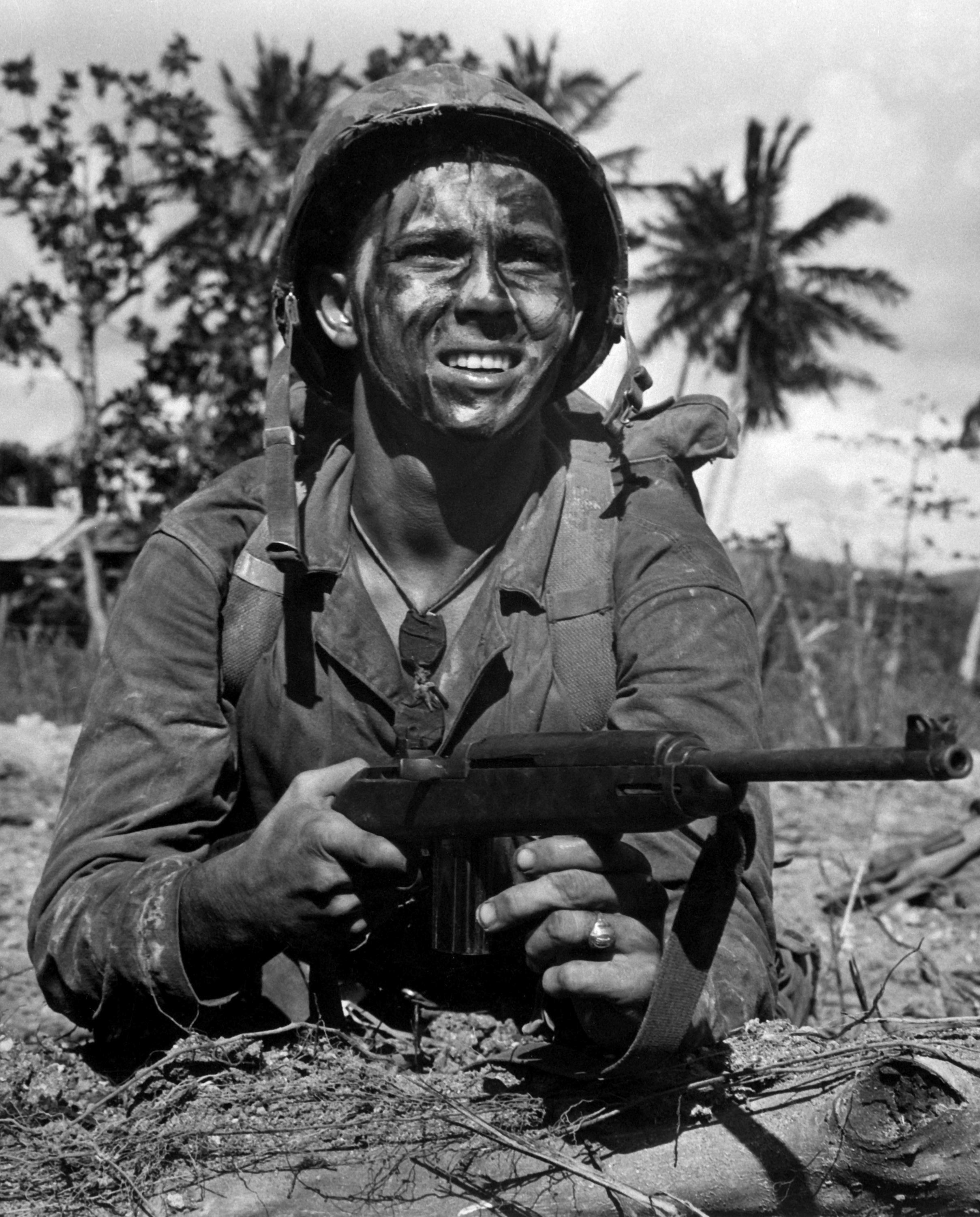 Marine awaits signal to go ahead in battle to recapture Guam from Japs.